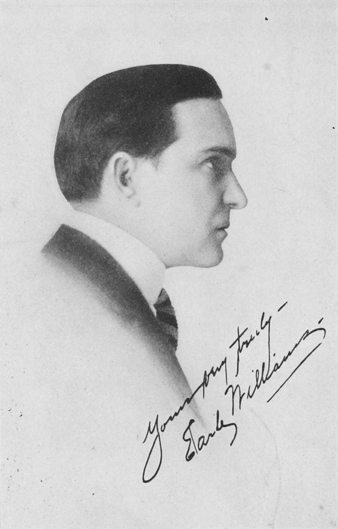 Photo of silent film actor Earle Williams